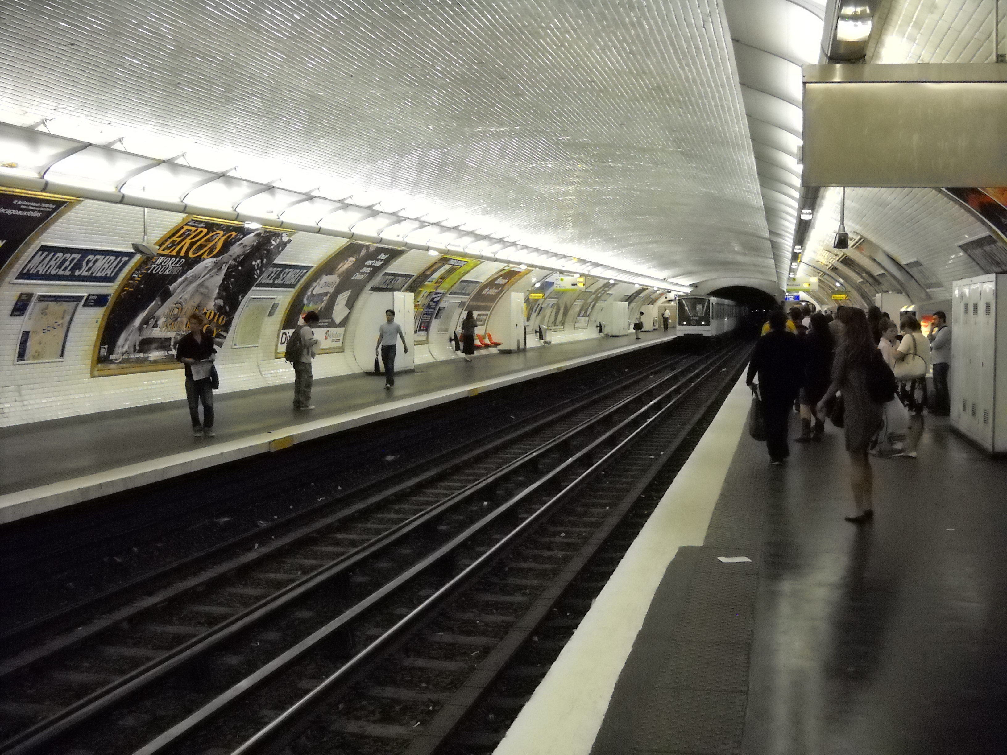 Marcel Sembat station, on Paris metro line 9.